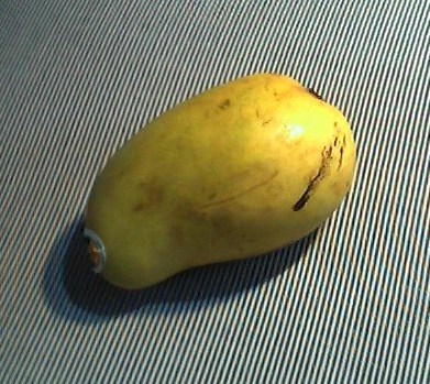 Ataulfo mango, grown in Soconusco, Mexico